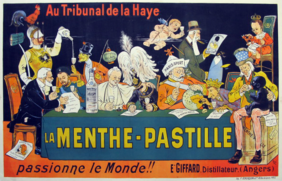 Pastille Giffard, poster from Eugène Ogé